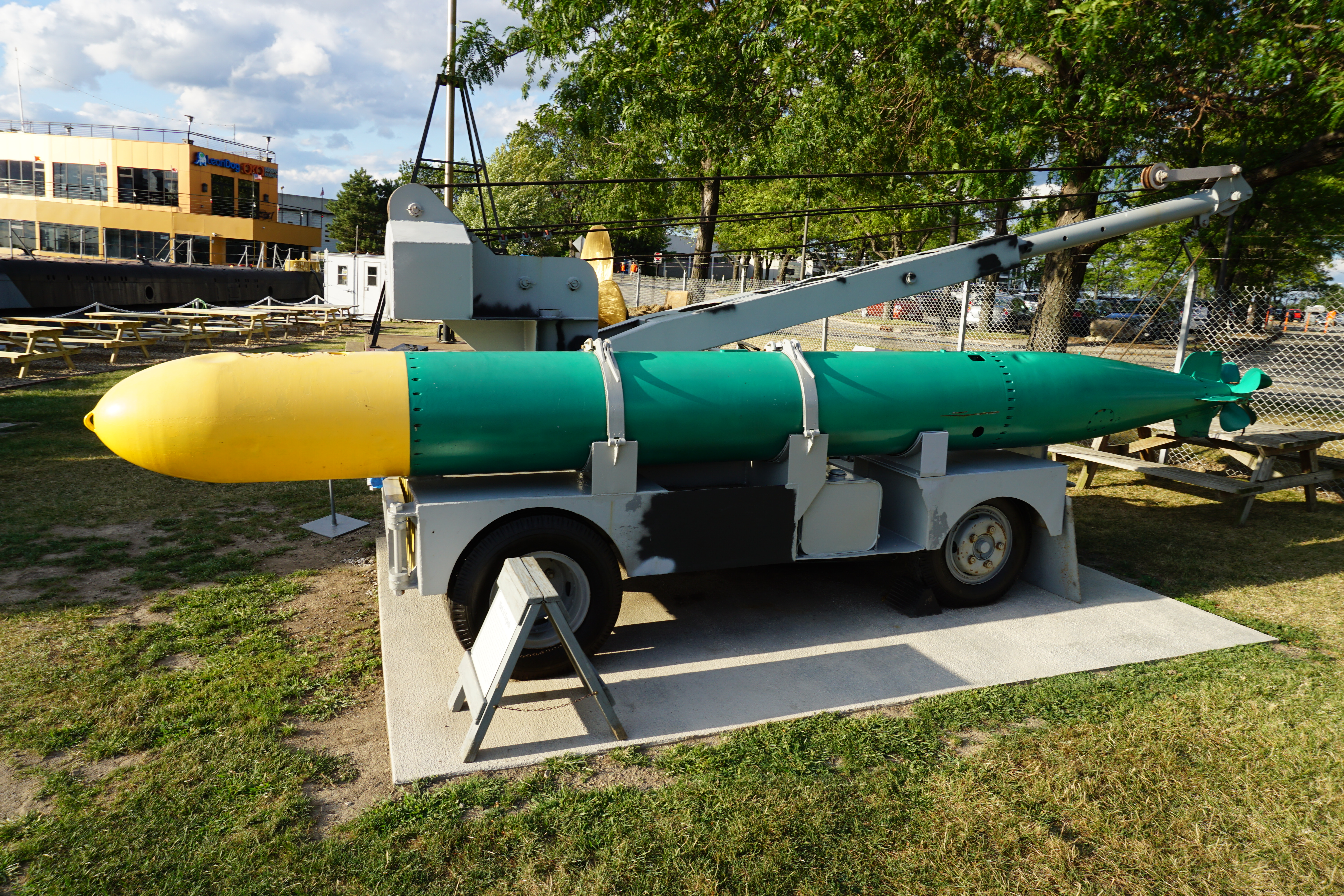 A Mark 14 torpedo near USS Cod in Cleveland, Ohio (United States).